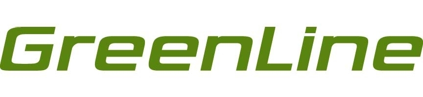 Logo of Škoda GreenLine